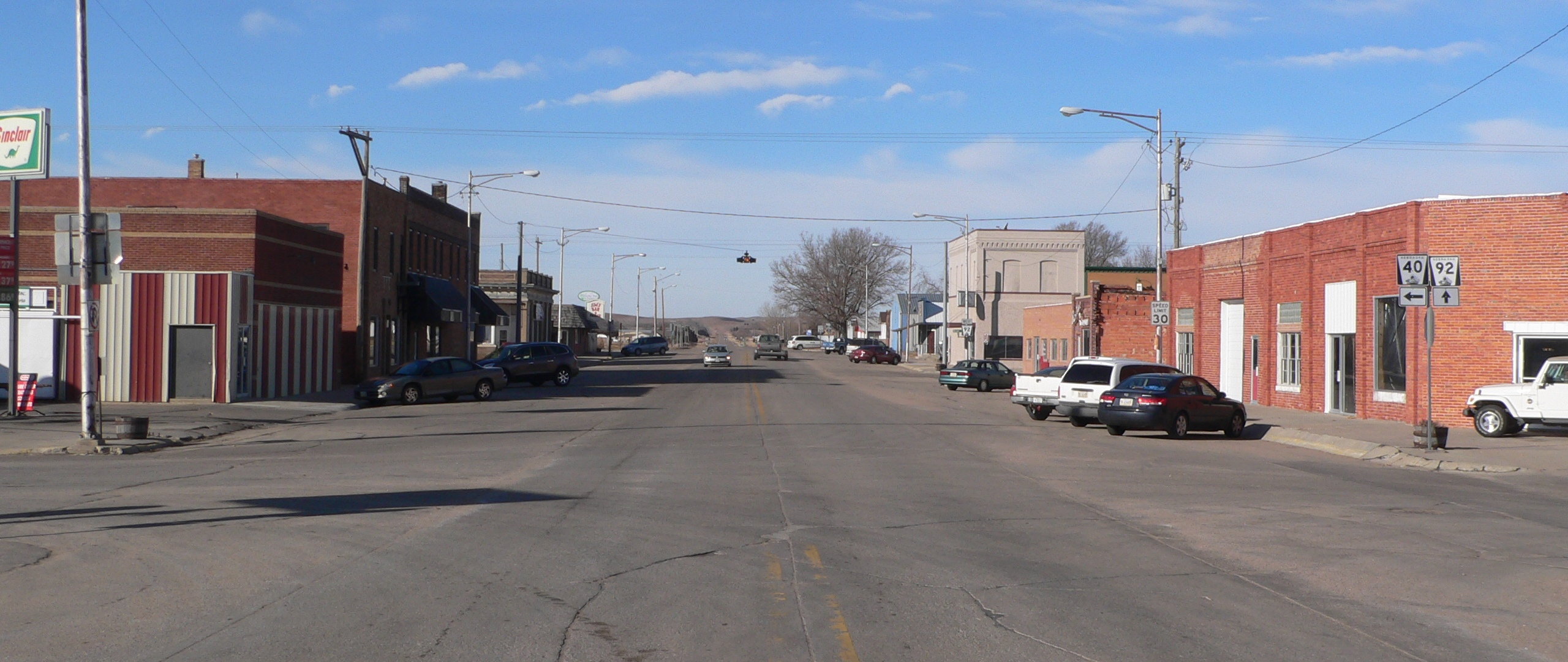 Downtown Arnold, Nebraska: Arnold Avenue (Nebraska Highway 92), looking west from about Carroll Street.